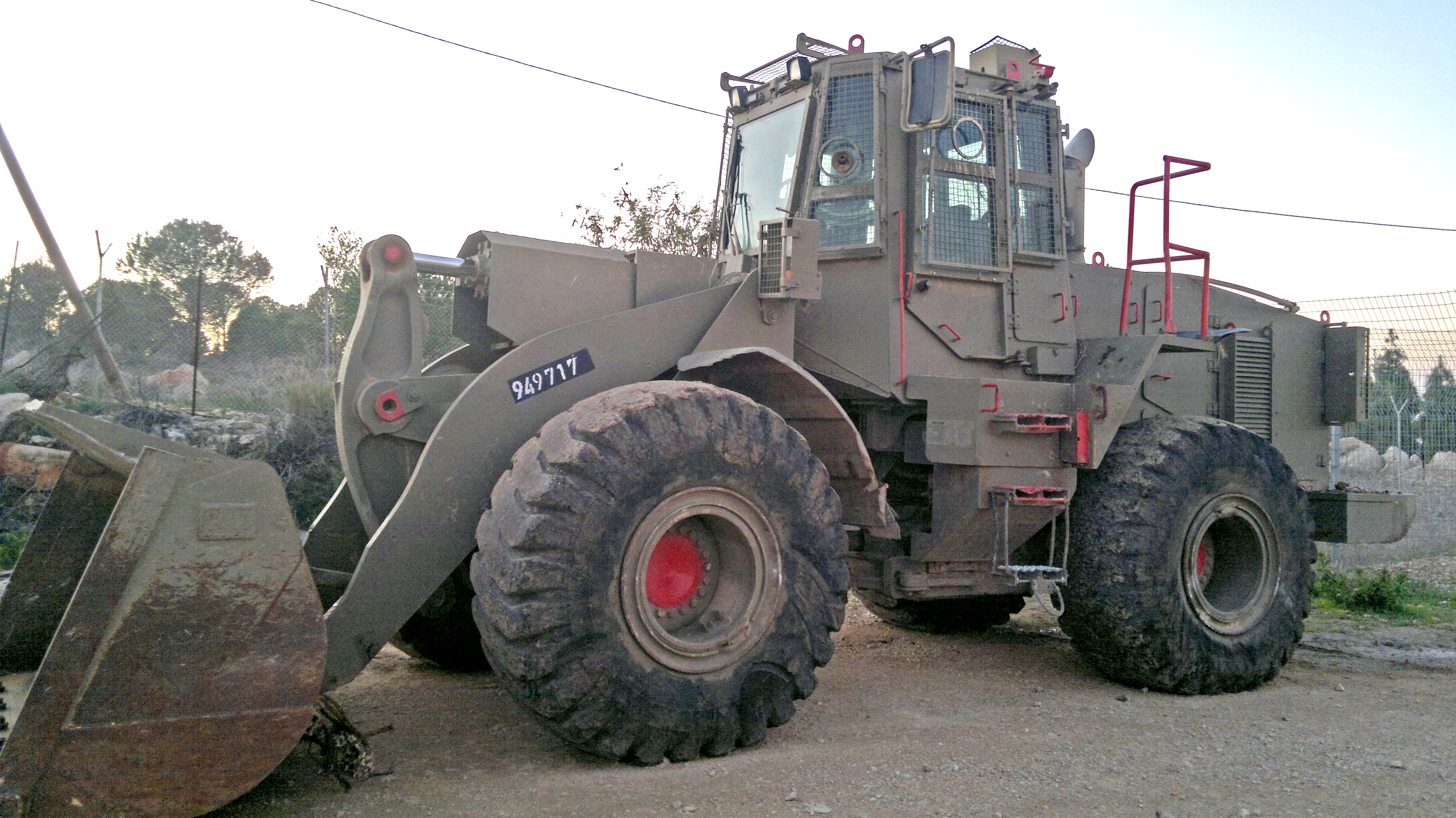 IDF armored wheel loader